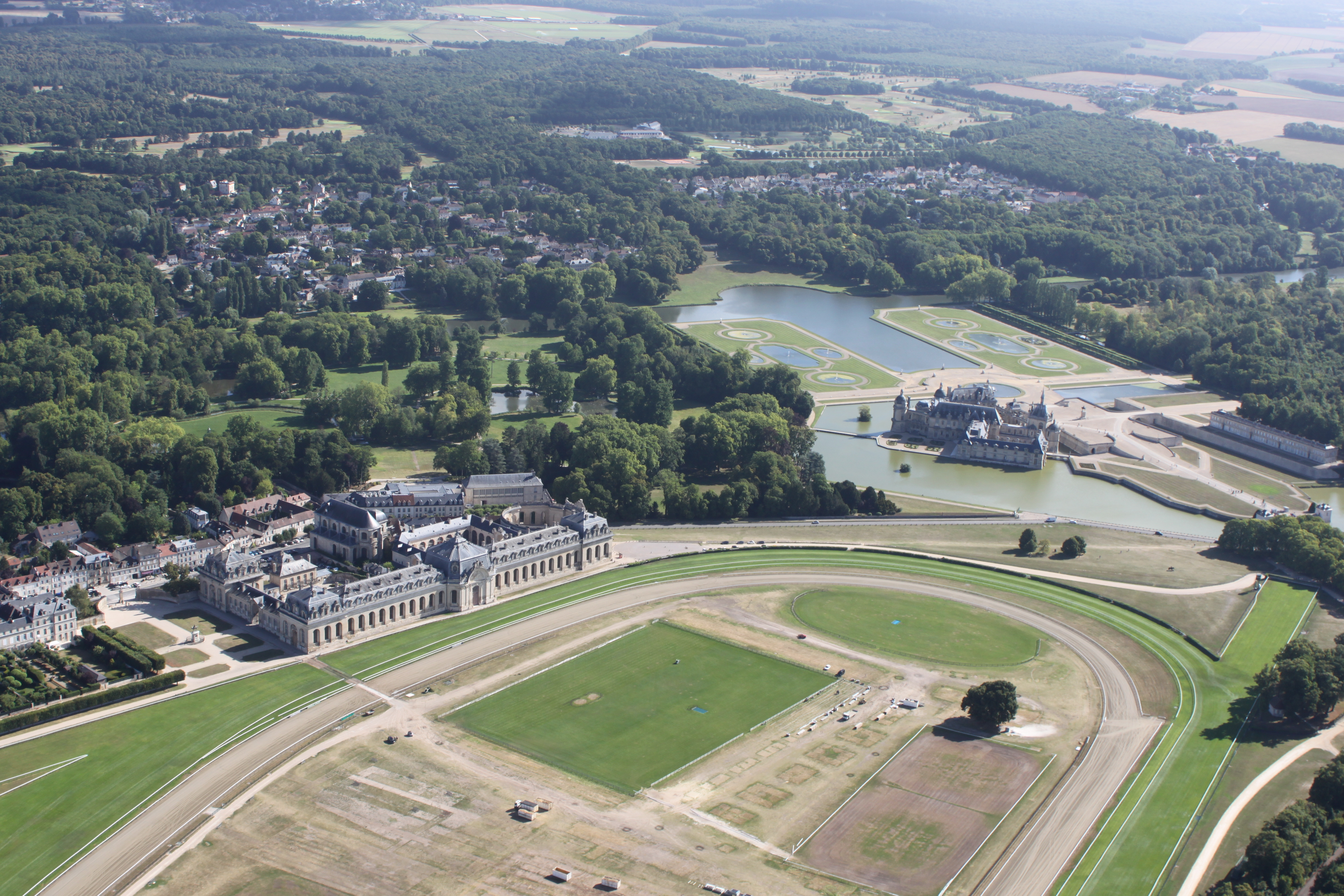 The town of Chantilly, France, with the Château de Chantilly and the Grandes Ecuries (Great Stables)